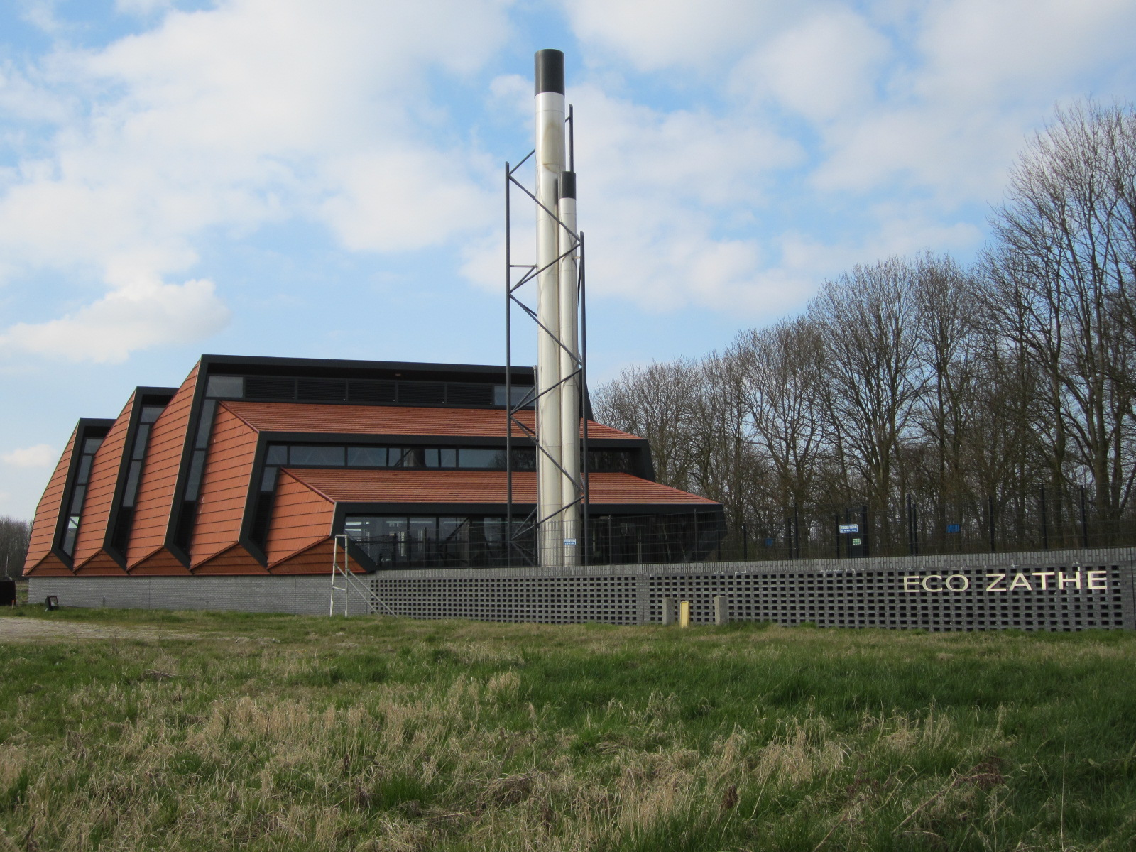 Biogas plant Eco Zathe in District De Zuidlanden, Leeuwarden, The Netherlands.